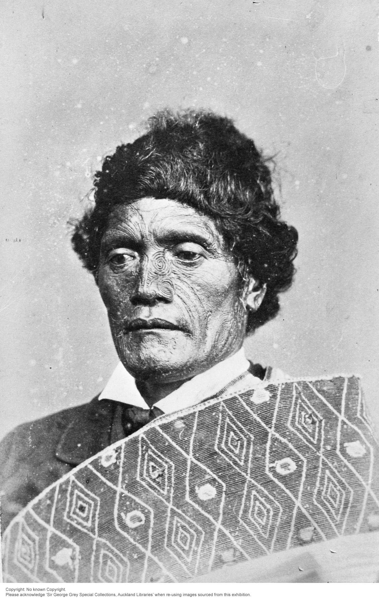 Te Rei Hanataua. Tangahoe, Ngāti Ruanui. [?-1860] Photograph 7-A2980. - See more at